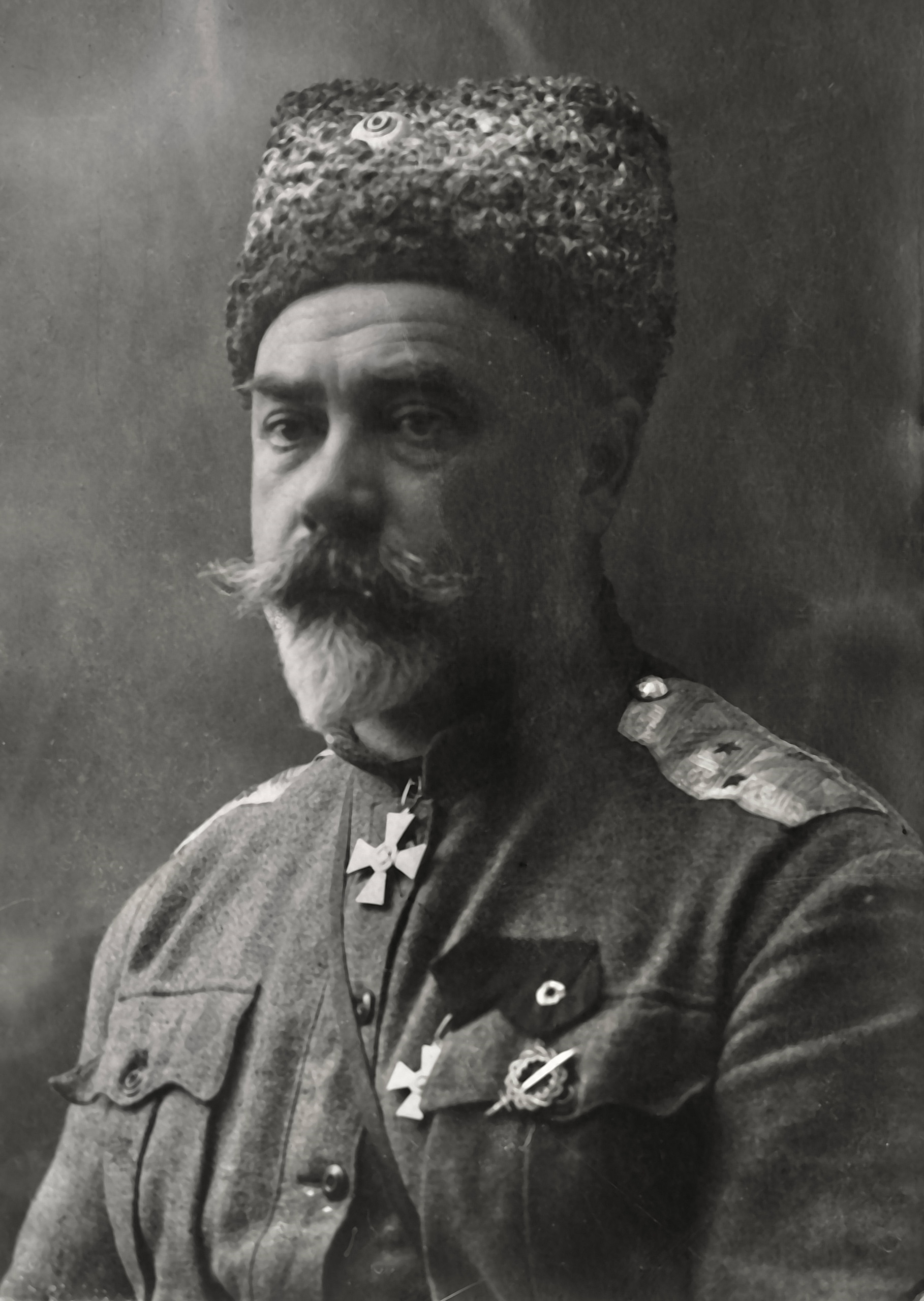 Anton Ivanovich Denikin This picture is a mirrored duplicate that ought to be removed!